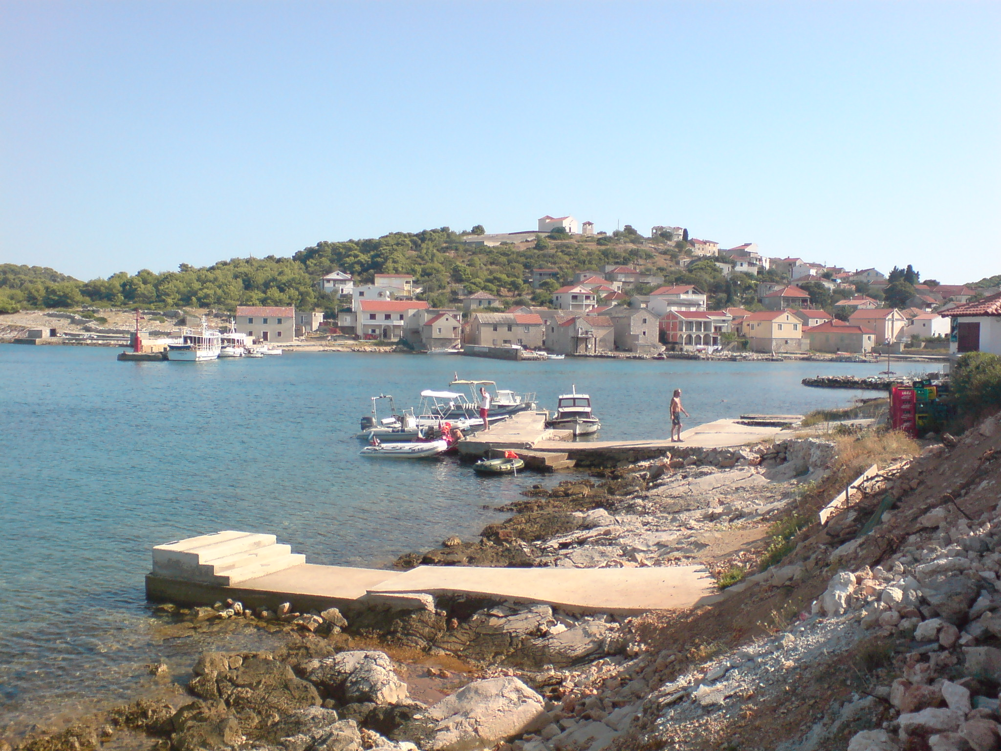 Vrgada Island - view of the bay and the church.